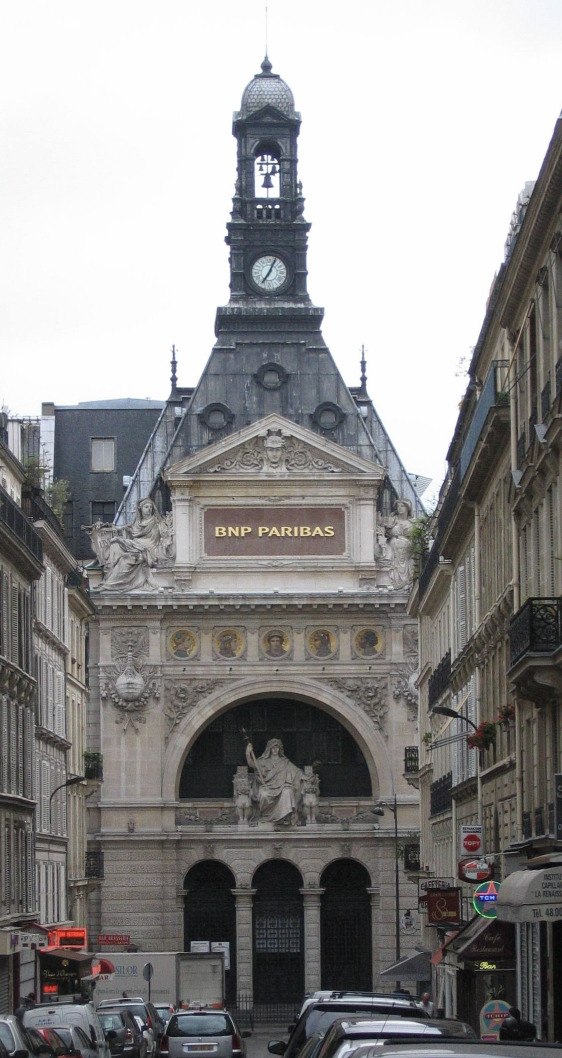 The BNP Paribas building in Paris, as seen from the Rue de Rougemont